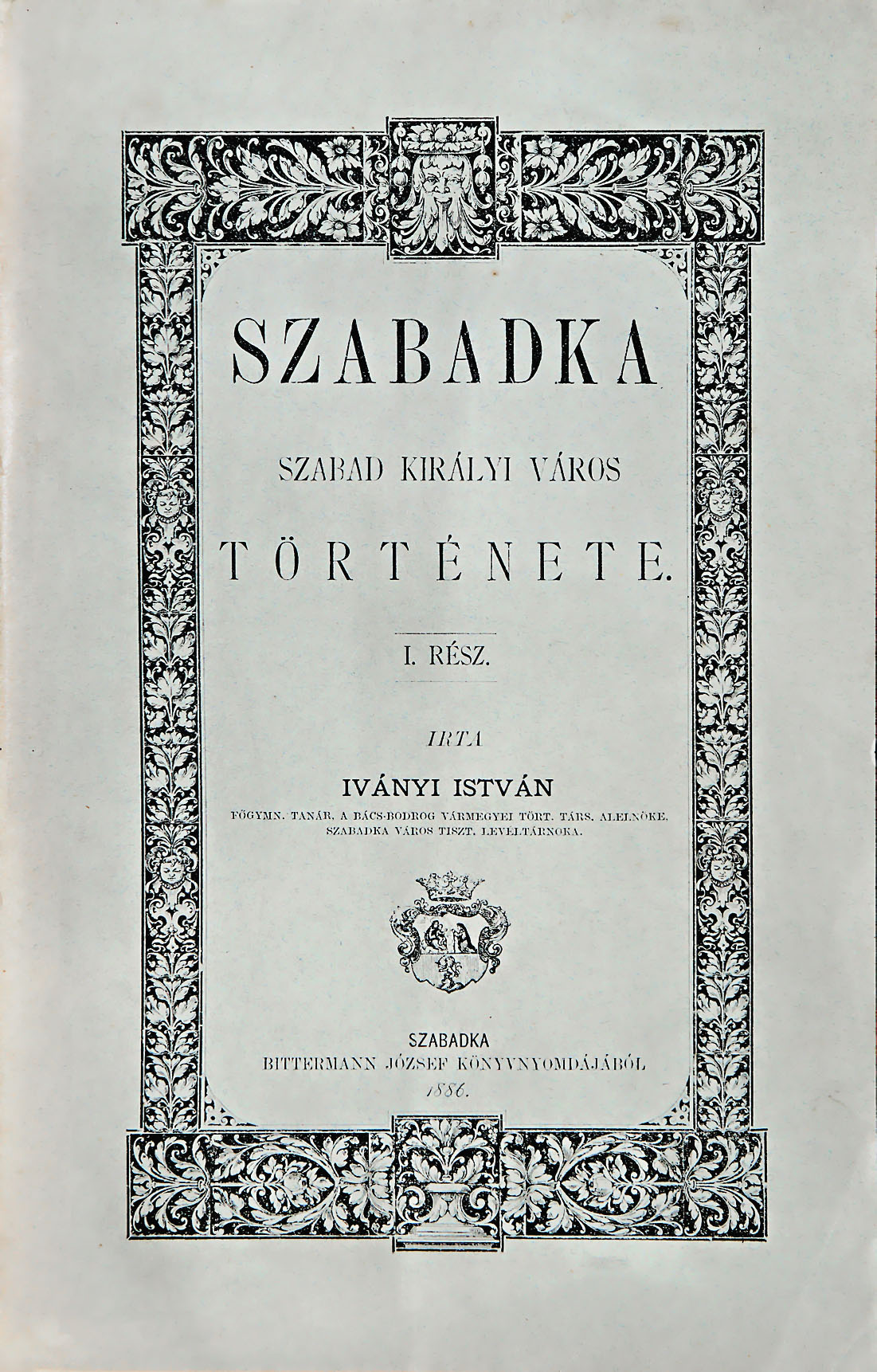 The cover of 19th century hungarian monograph of Subotica (hungarian: Szabadka) published 1886